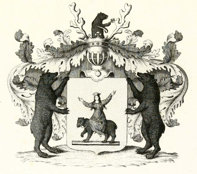 Coat of Arms of Olenin family